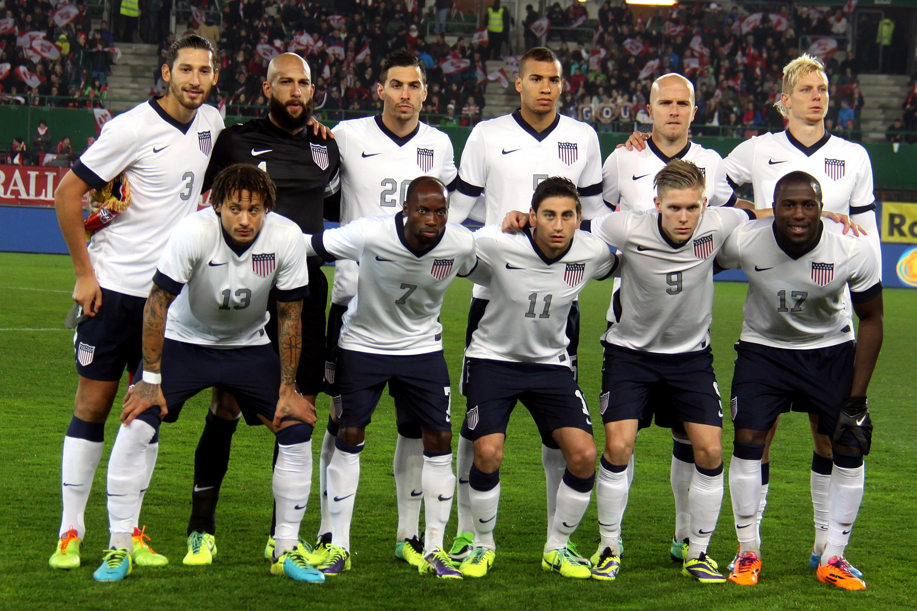 Friendly-match Austria vs. USA (1:0) in the Ernst-Happel-Stadion in Vienna at 2013-03-22. – The photo shows the team of USA fron left to right, back row: Omar González, Tim Howard, Geoff Cameron, John Brooks, Michael Bradley, Brek Shea; front row: Jermaine Jones, DaMarcus Beasley, Alejandro Bedoya, Aron Jóhannsson und Jozy Altidore.